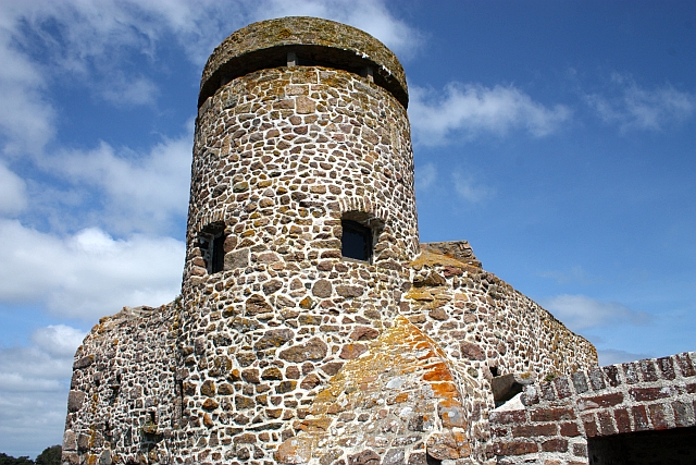 German observation tower, Gorey Castle. During the Second World War German Occupation the occupying forces garrisoned the castle and added modern fortifications camouflaged to blend in with existing structures. This observation tower has wonderful views from the top of the castle.